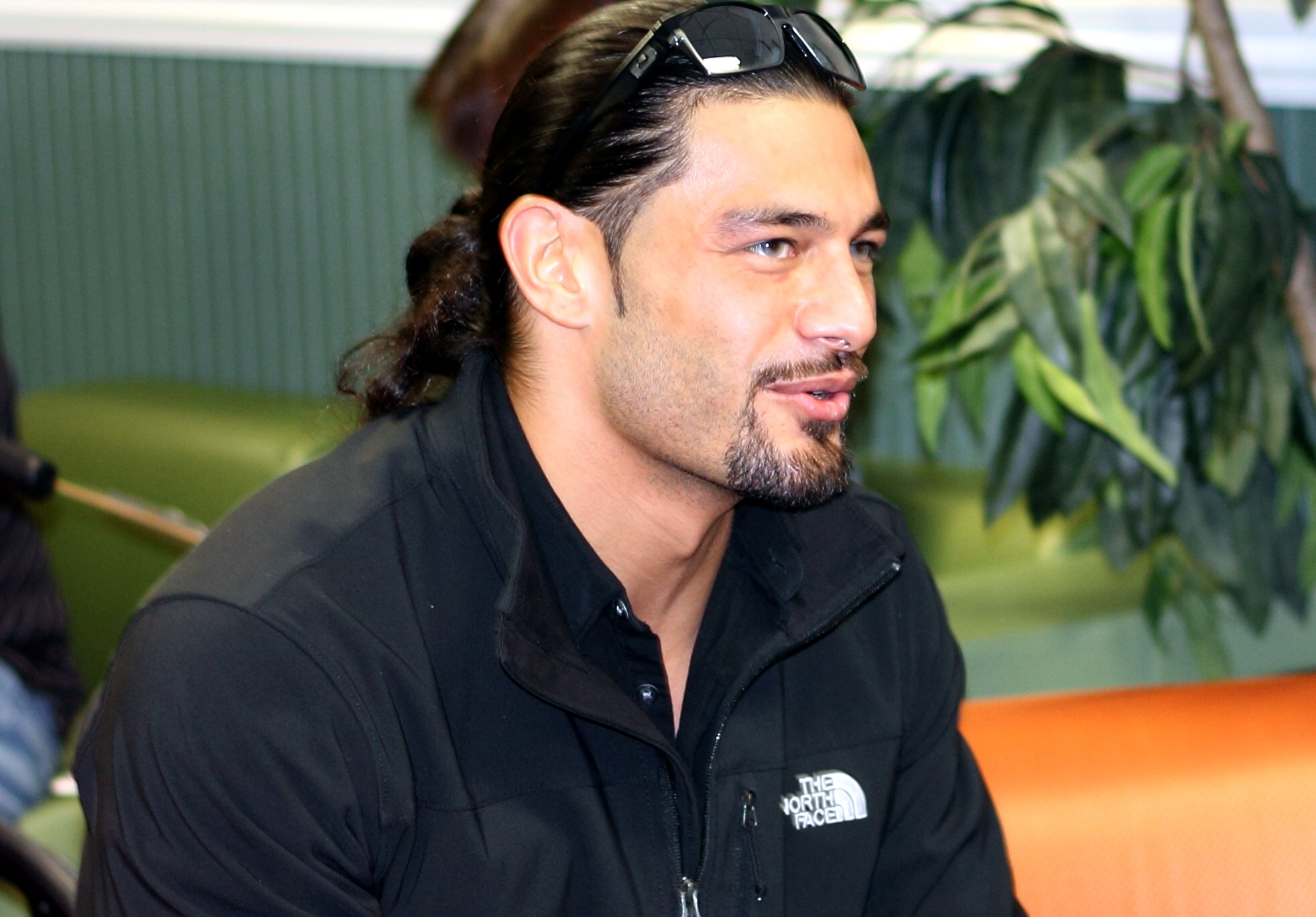 WWE wrestler Roman Reigns visiting the Children's Blood and Cancer Center at Dell Children's Hospital in Austin, Texas on 17 December 2013.